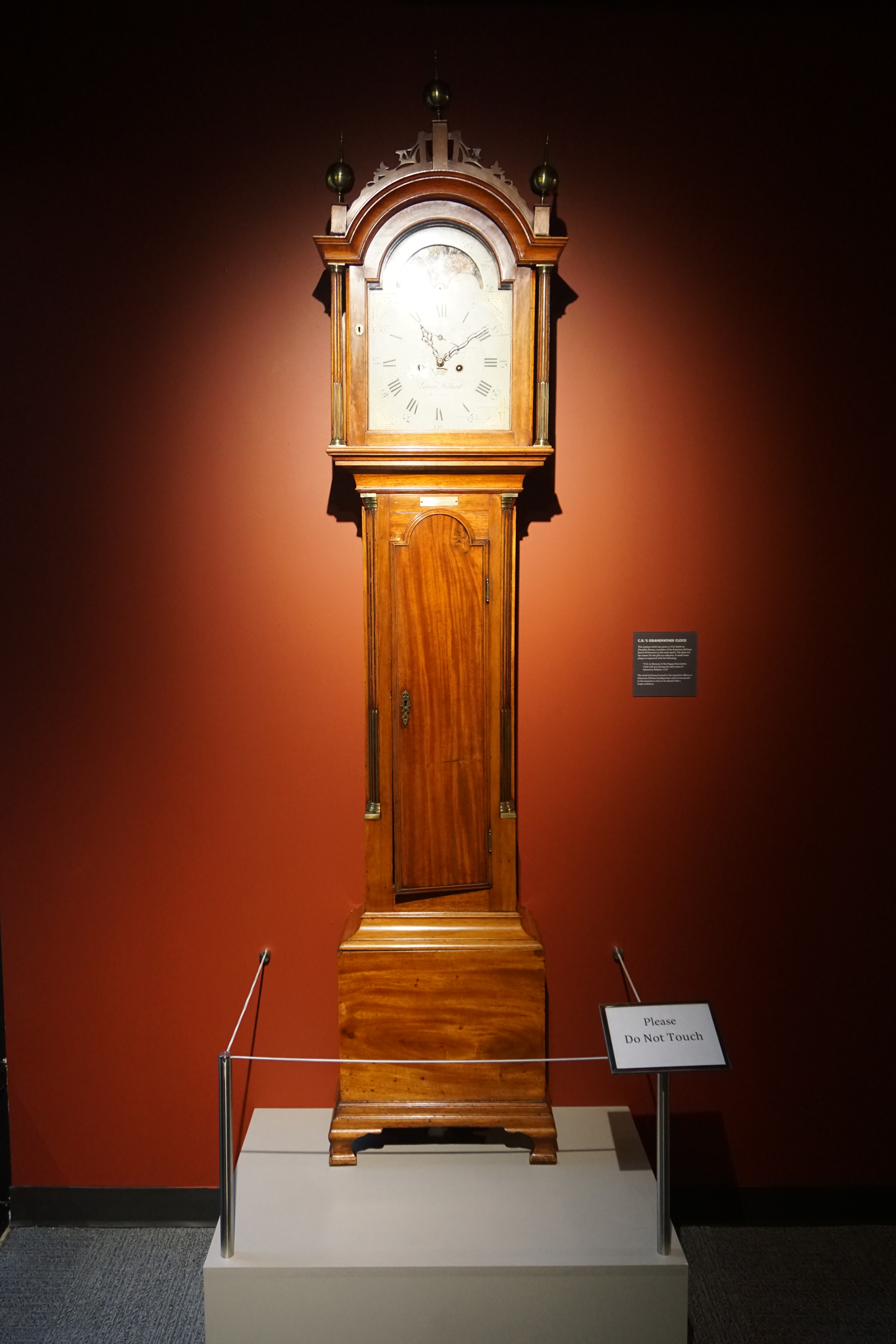 C. R. Smith's grandfather clock at the American Airlines C.R. Smith Museum in Fort Worth, Texas (United States).